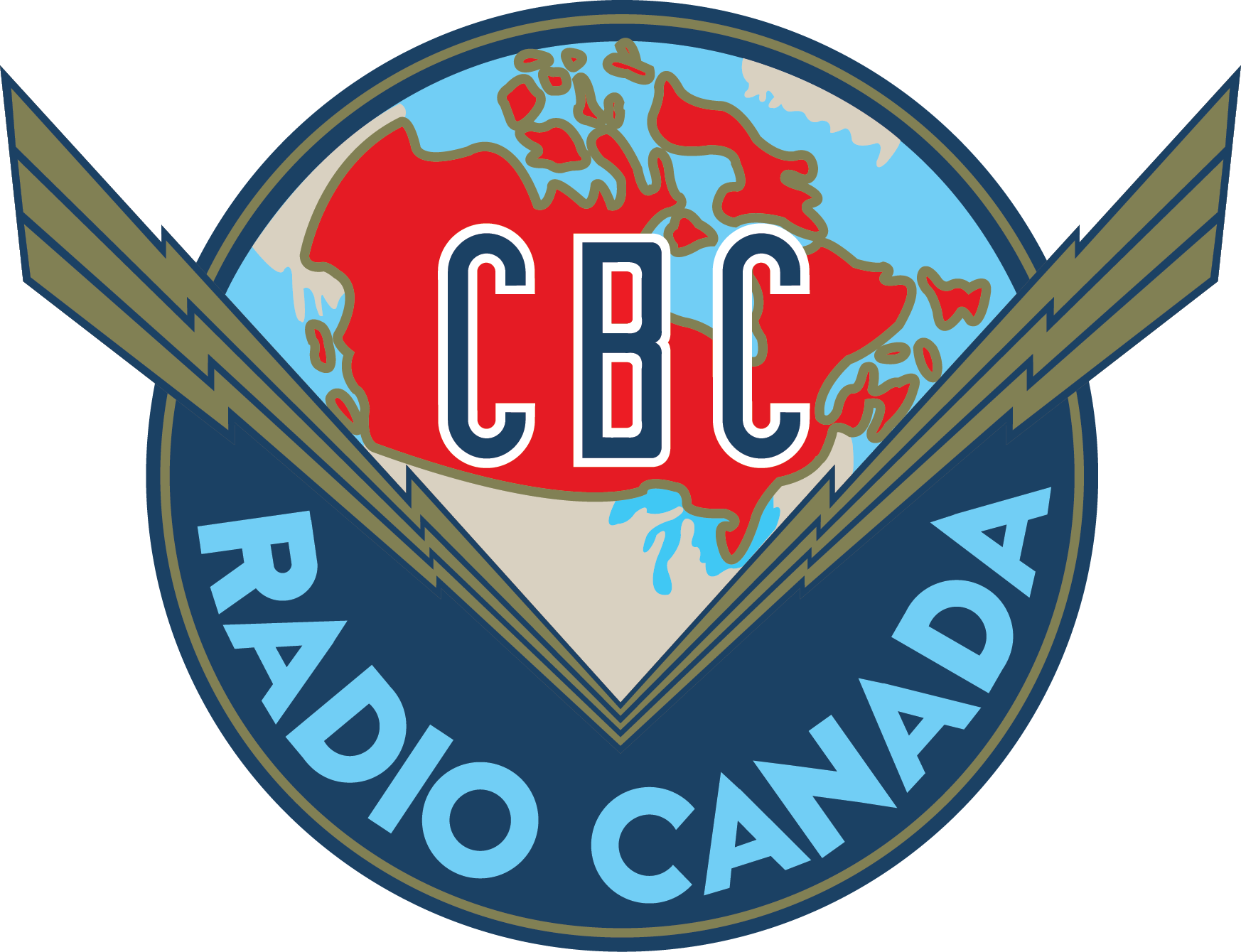 The Canadian Broadcasting Corporation logo from 1940 to 1958. It features a red map of Canada set above elongated lightning bolts spanning across the country, the design was intended to represent the unifying role the public broadcaster would play.[1]